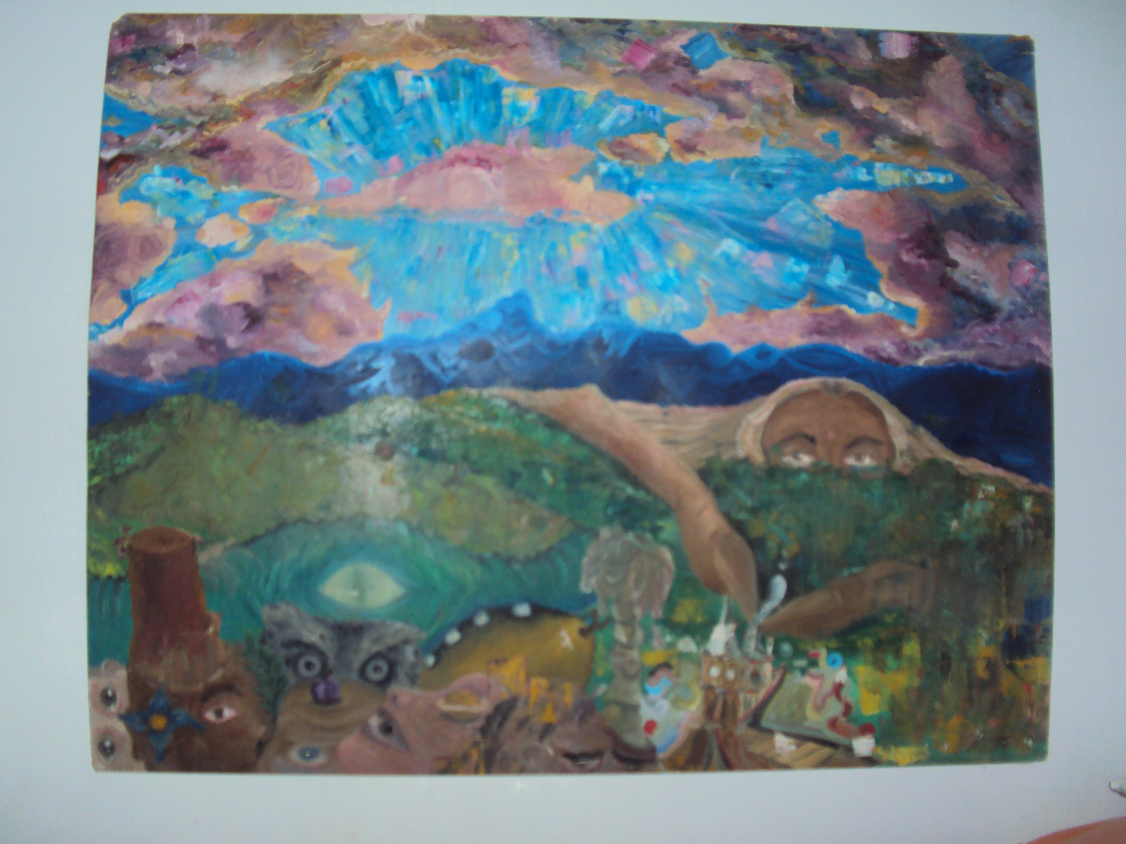 Spanish conquest and reconquest Panche